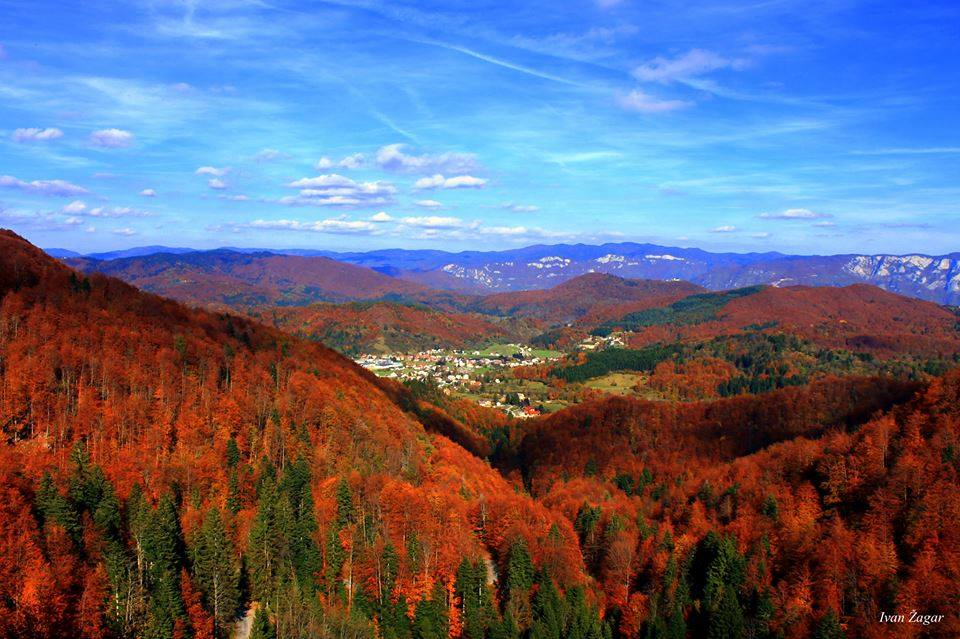 This picture is take during Autumn 2014 about the town Cabar, Croatia.